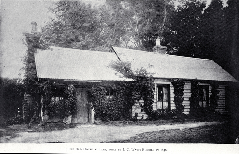 The old cottage at Ilam, built by J. C. Watts-Russell in 1856. John Charles Watts-Russell (1826-1875) built this on his farm which he named Ilam after his family home in Staffordshire, England.